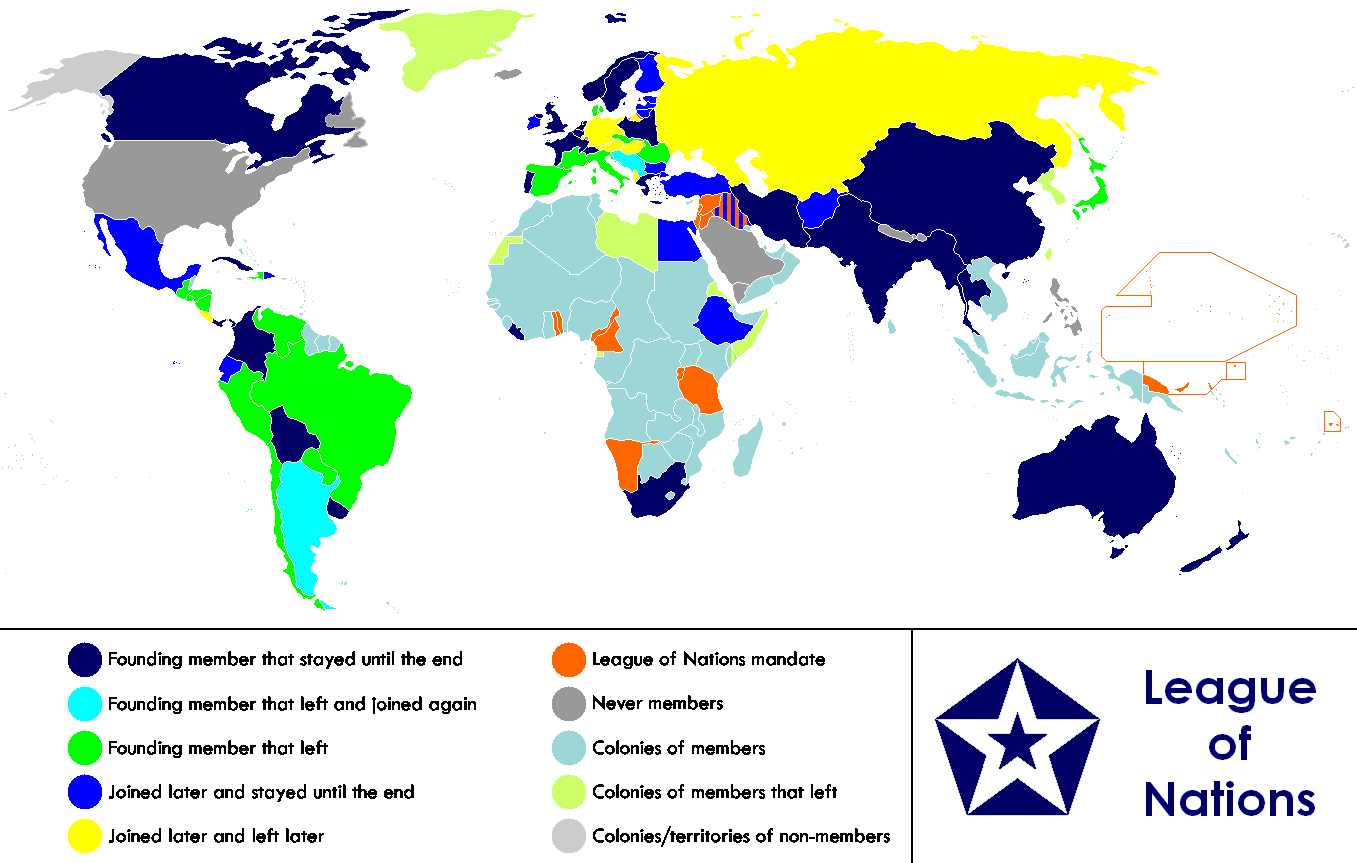 Anachronous map of the world between 1920 and 1945 which shows the The League of Nations and the world.